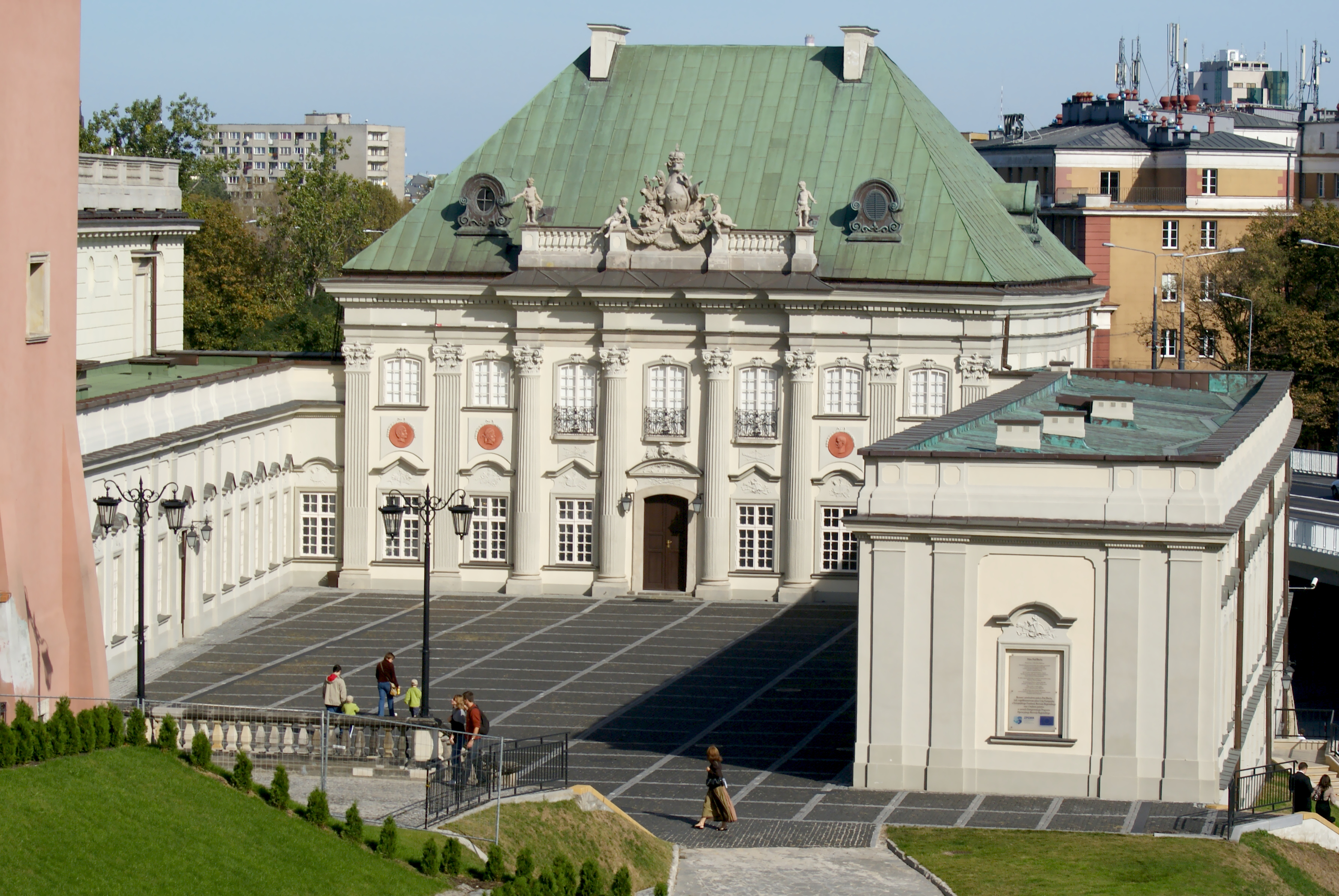 Palace under the sheet metal roof